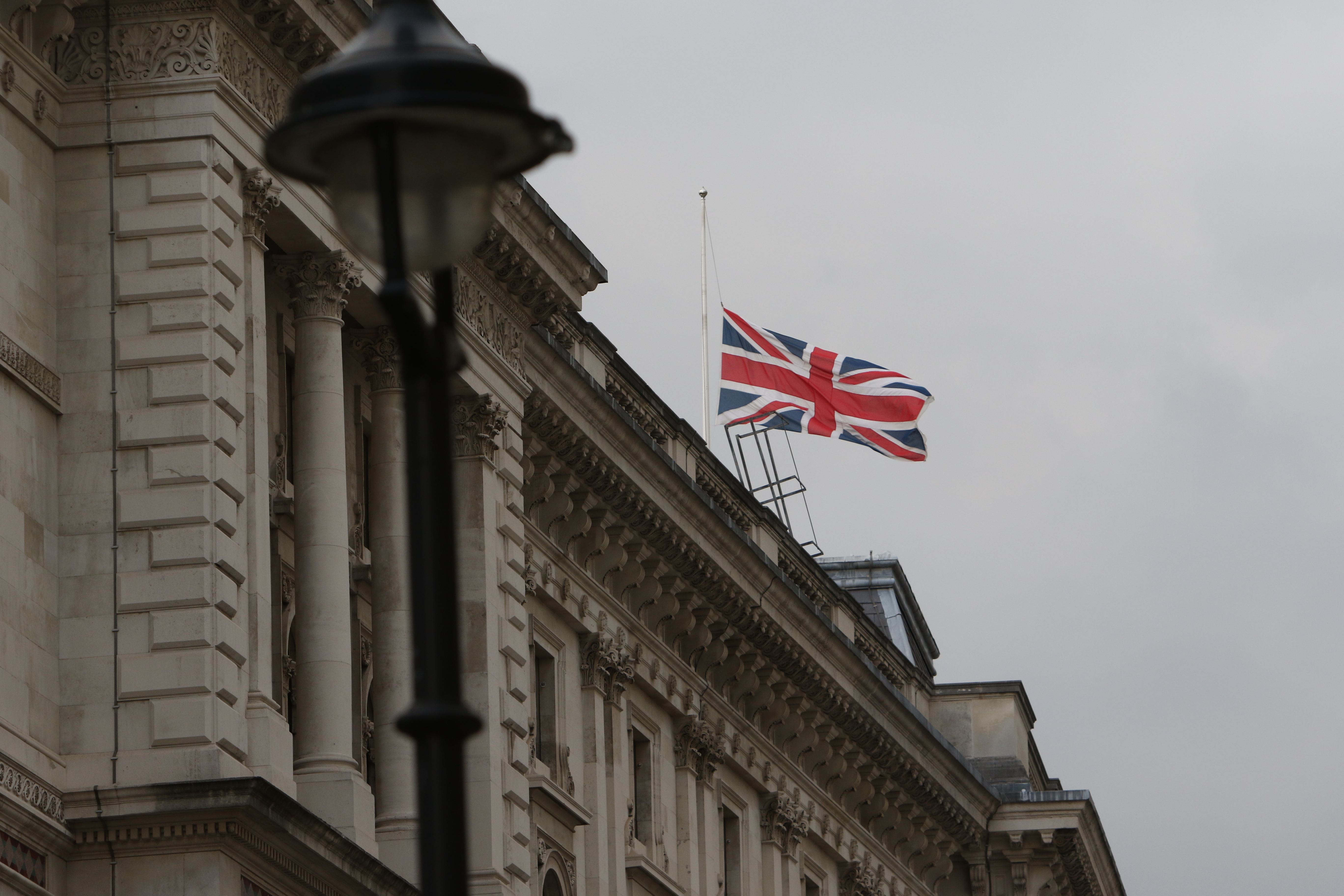 Following the death of His Majesty King Bhumibol Adulyadej of Thailand, the Union Flag is flown at half mast at the Foreign Office building in London, 13 October 2016.